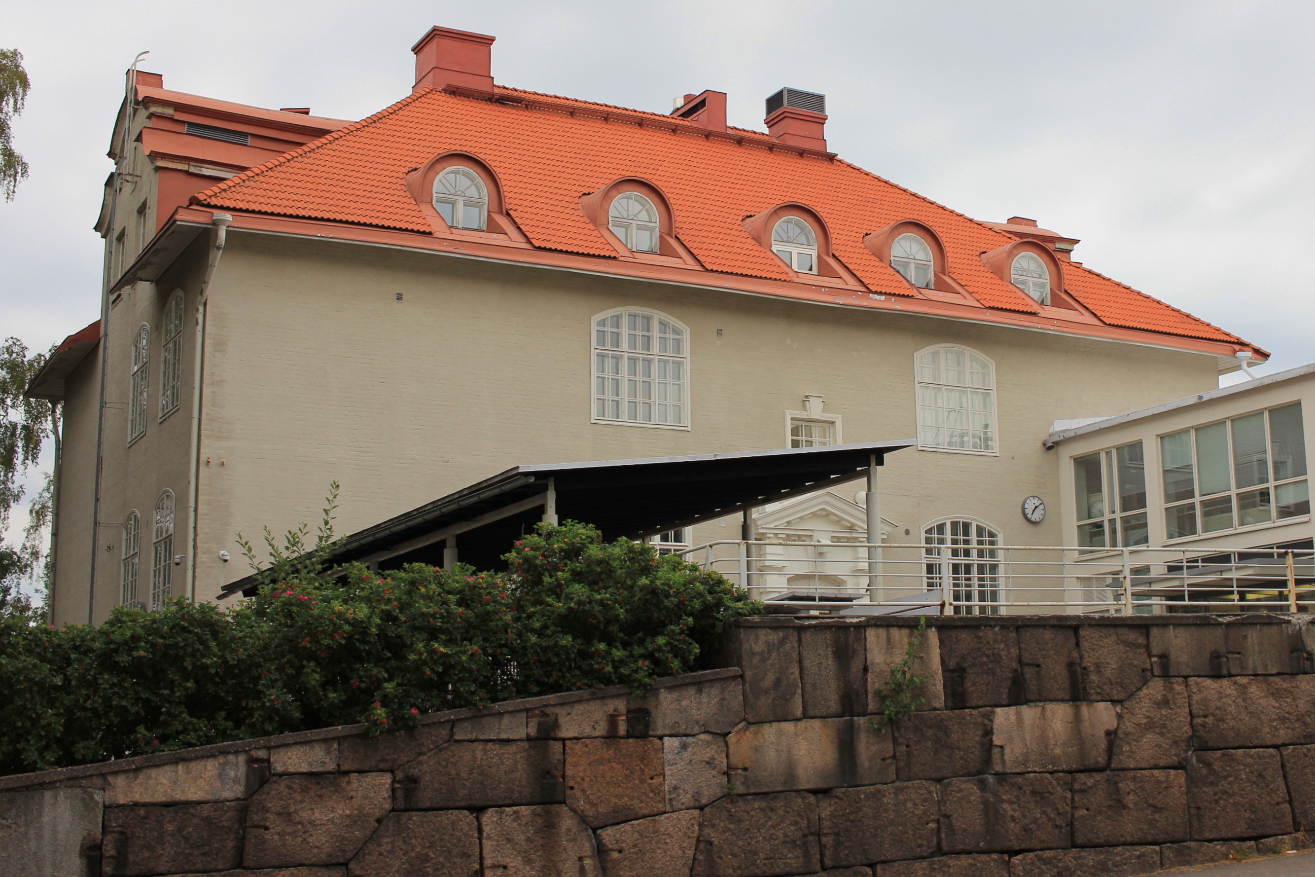 Brändö gymnasium and Brändö lågstadieskola, Kulosaari, Helsinki, Finland. - Brändö lågstadieskola.